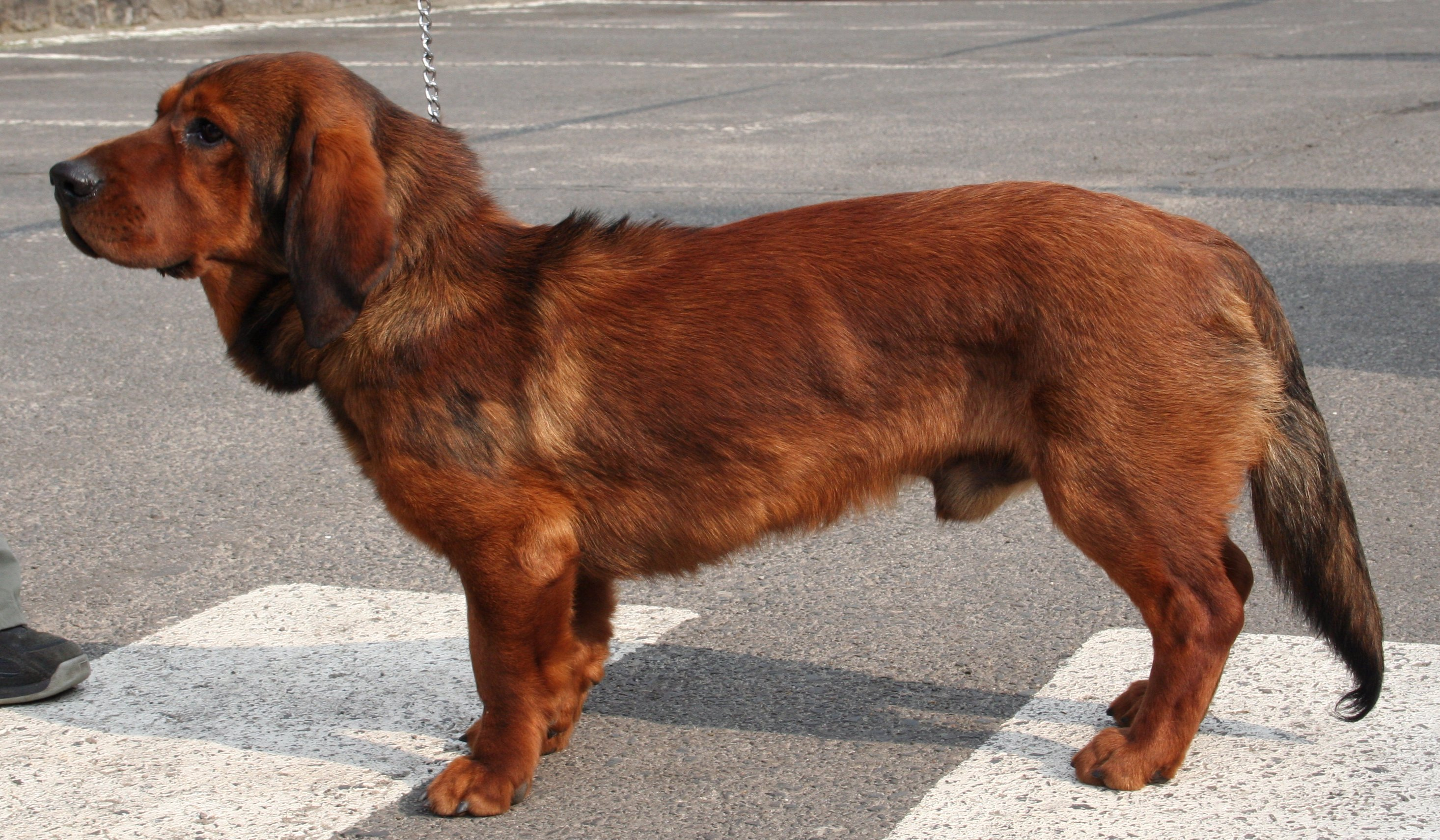 Alpine Dachsbracke during dogs show in Katowice, Poland